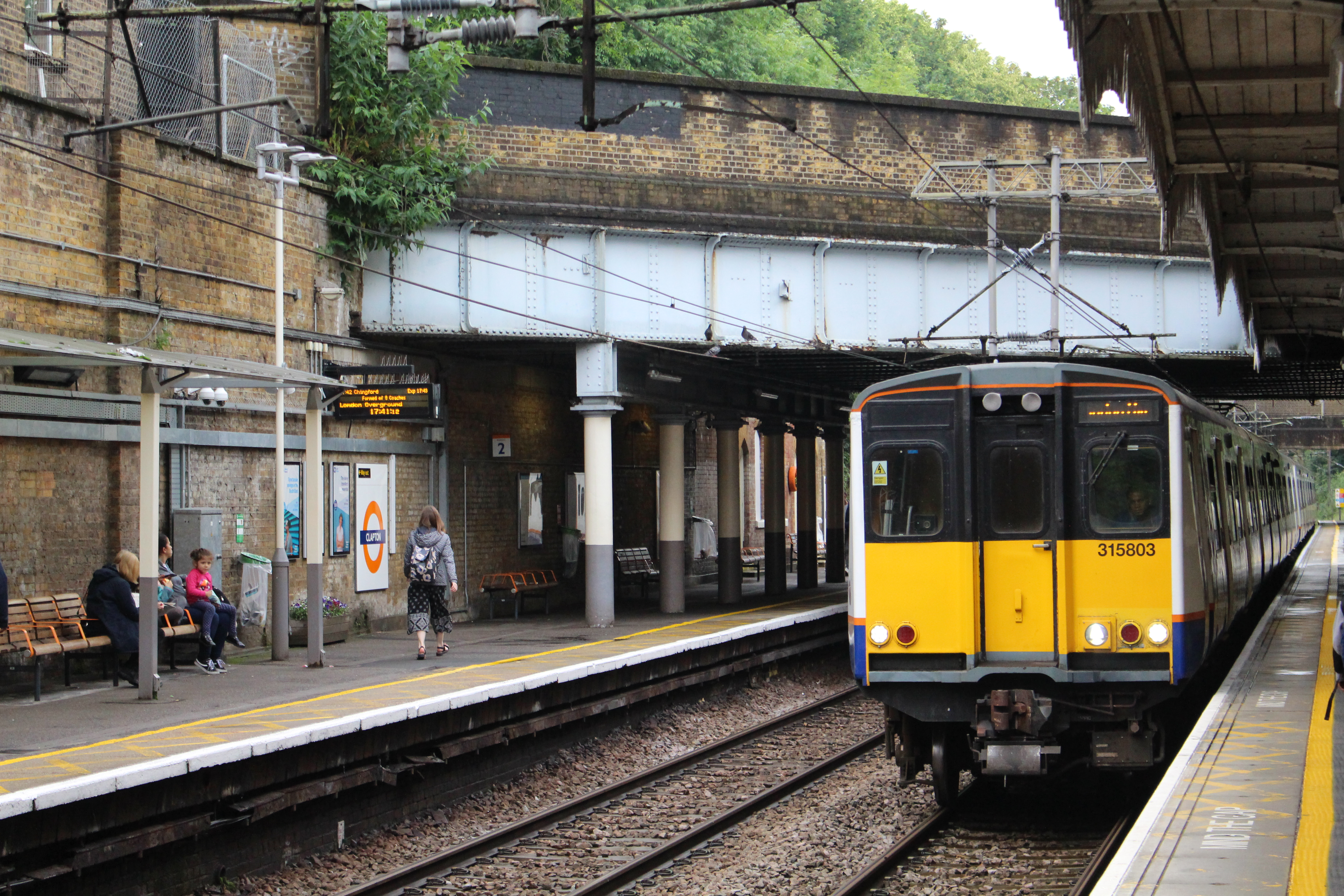 A train.